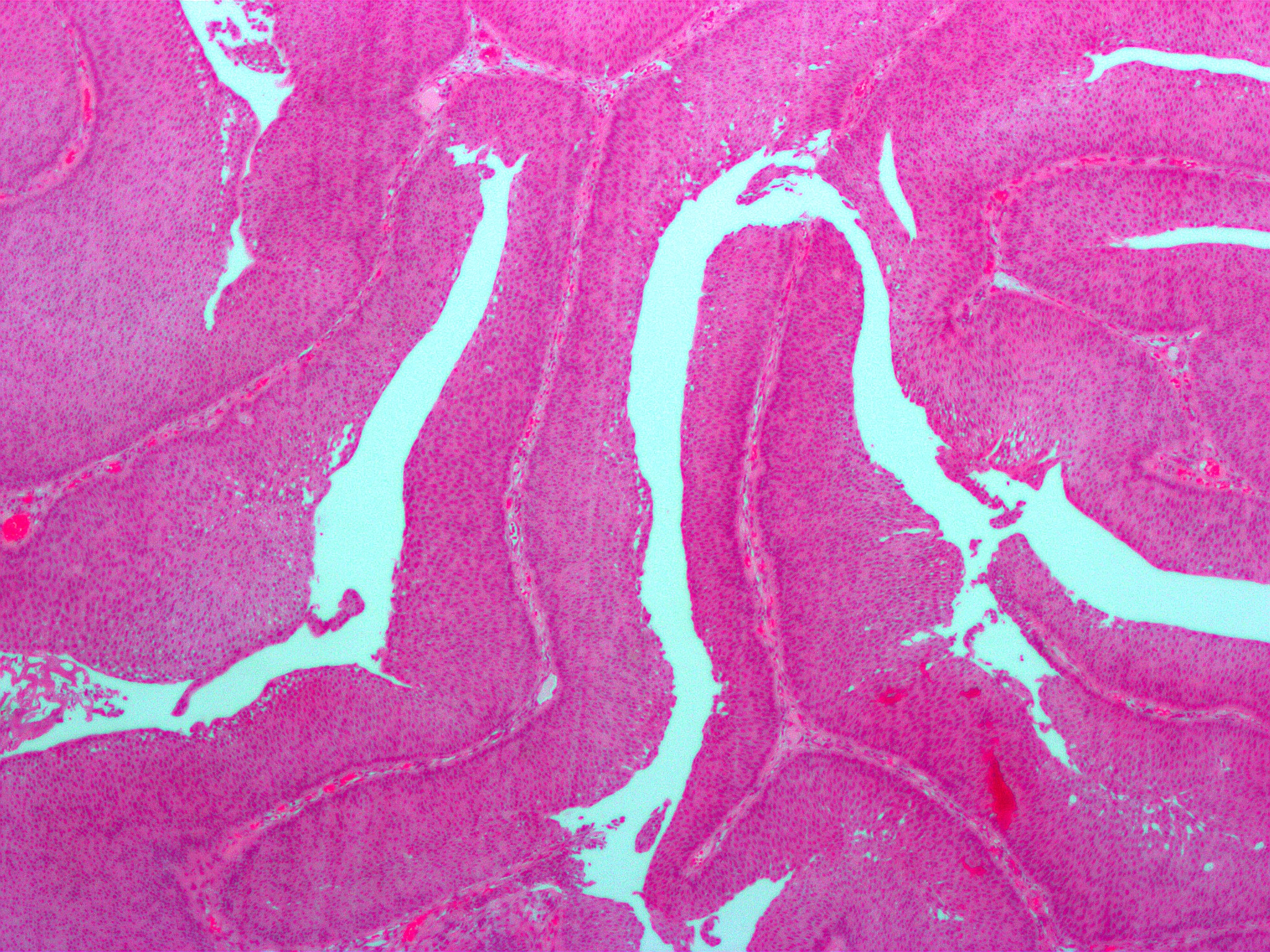 PUNLMP, short for papillary urothelial neoplasm of low malignant potential, is an exophytic (outward growing), (microscopically) nipple-shaped (or papillary) pre-malignant growth of the lining of the upper genitourinary tract (the urothelium), which includes the renal pelvis, ureters, urinary bladder and part of the urethra. PUNLMPs, as their name suggests, are neoplasms, i.e. clonal cellular proliferations, that have a low probability of developing into urothelial cancer, i.e. a malignancy such as bladder cancer. Histologic features: Simple papillary architecture with slender fibrovascular cores. Papillae rarely fuse and uncommonly branch. Rare basal mitoses. Cytologic features: Uniform nuclear enlargement. See also Image:Punlmp2.jpg - intermediate magnification.